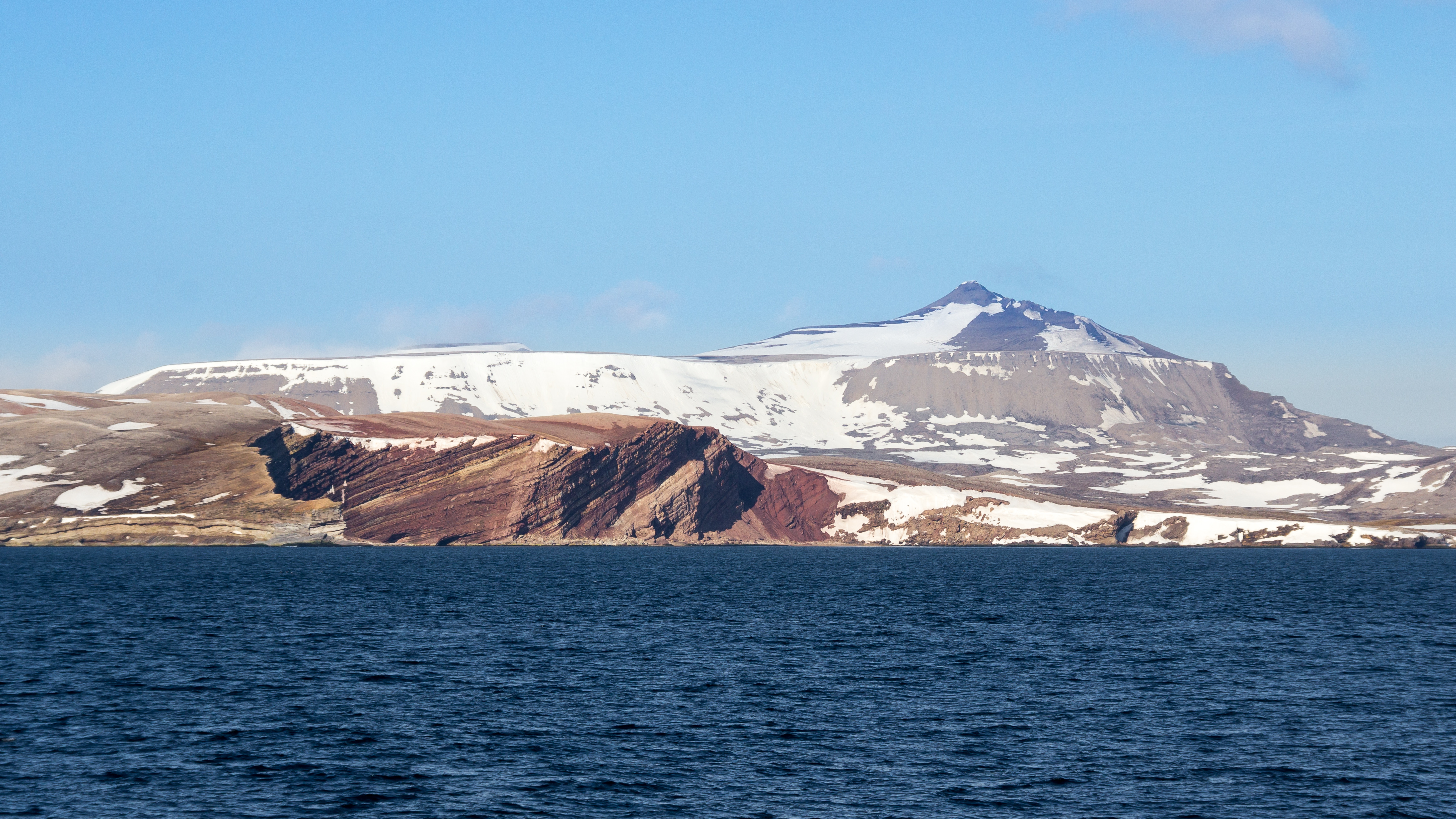 Miseryfjellet (Misery mountain) seen from the sea west-southwest, with Skuld as the highest peak on the right hand side.